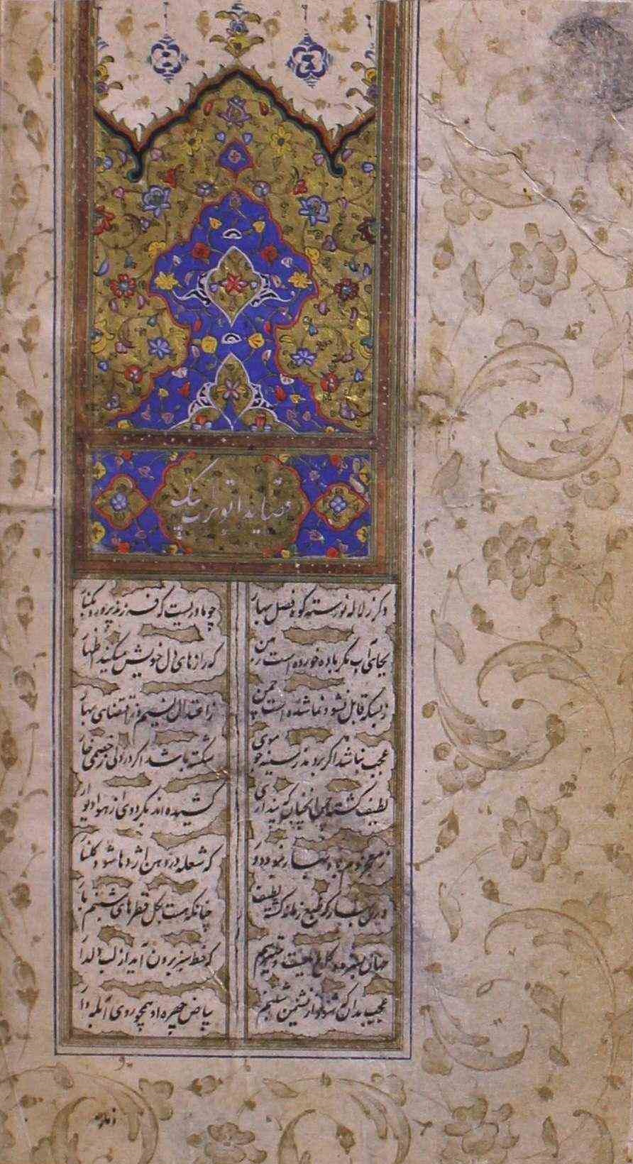 First page of Divan of Abu-Turab Furqati